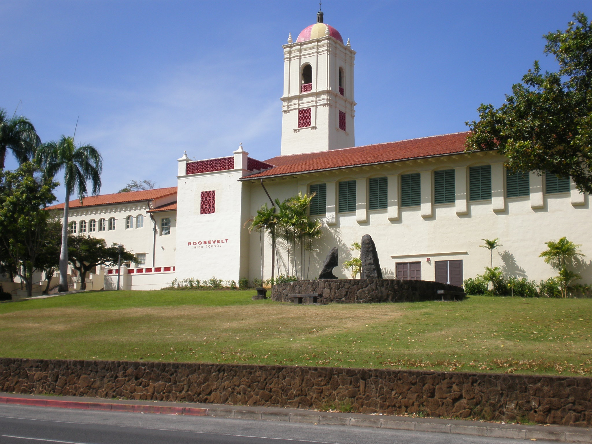 President Theodore Roosevelt High School, 1120 Nehoa Street, Honolulu, Hawaii